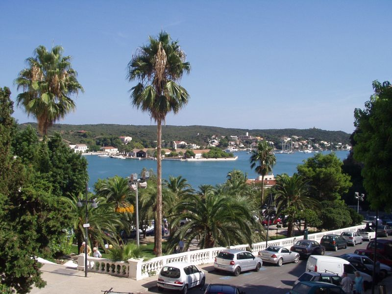 Maó harbour